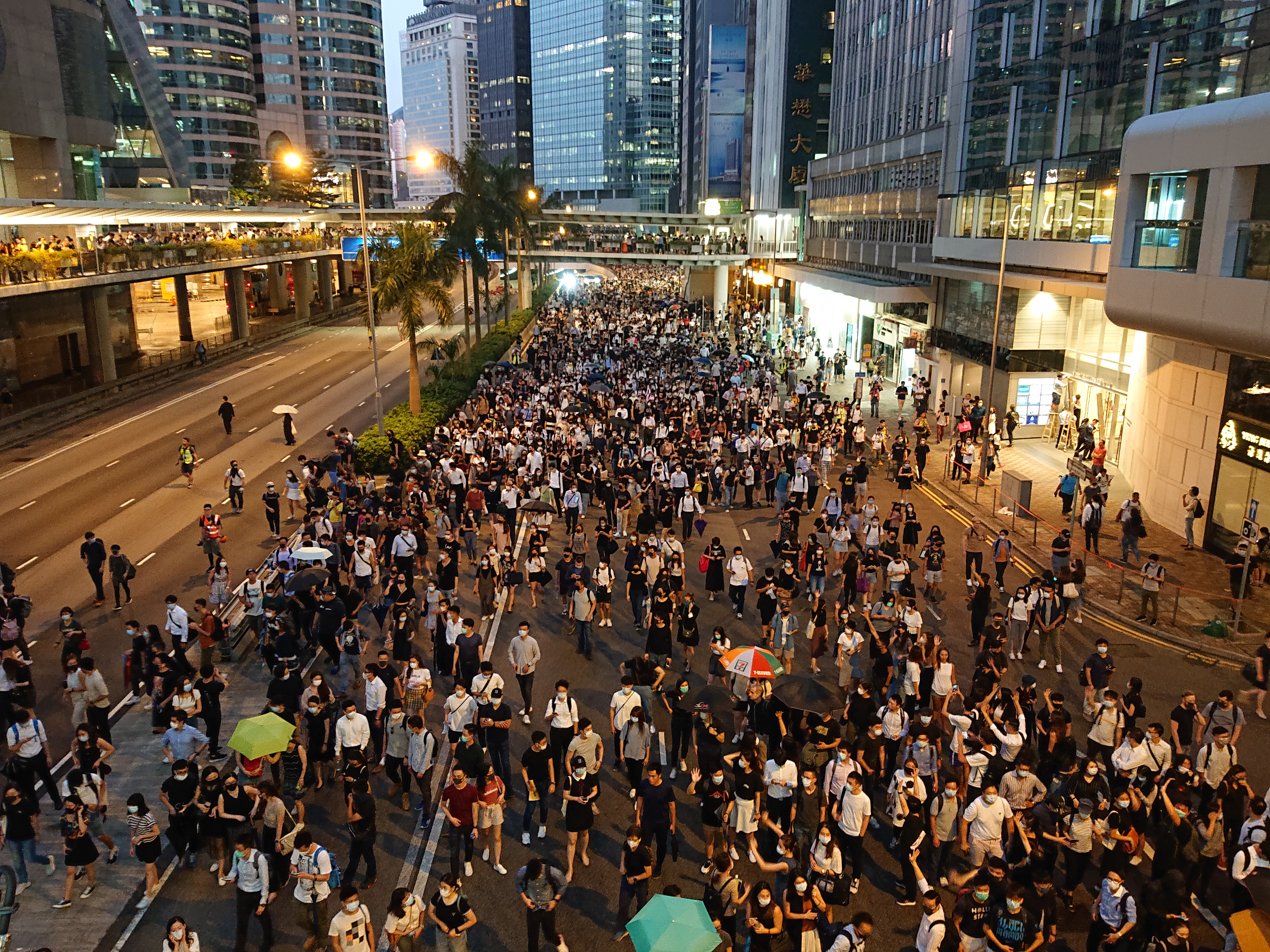 2019-10-04 Central Protest (Evening) on Connaught Road Central near Exchange Square